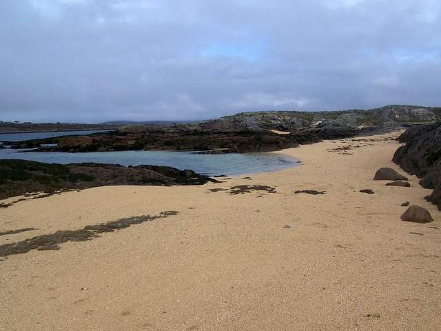 Coral Strand, Carrowroe/An Cheathru Rua What looks like yellow sand from a distance turns out to be, on closer inspection, millions of rounded fragments of limestone and coral, bleached by the sun.